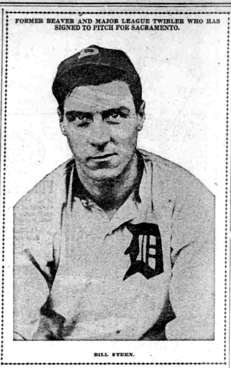 newspaper photo of the player